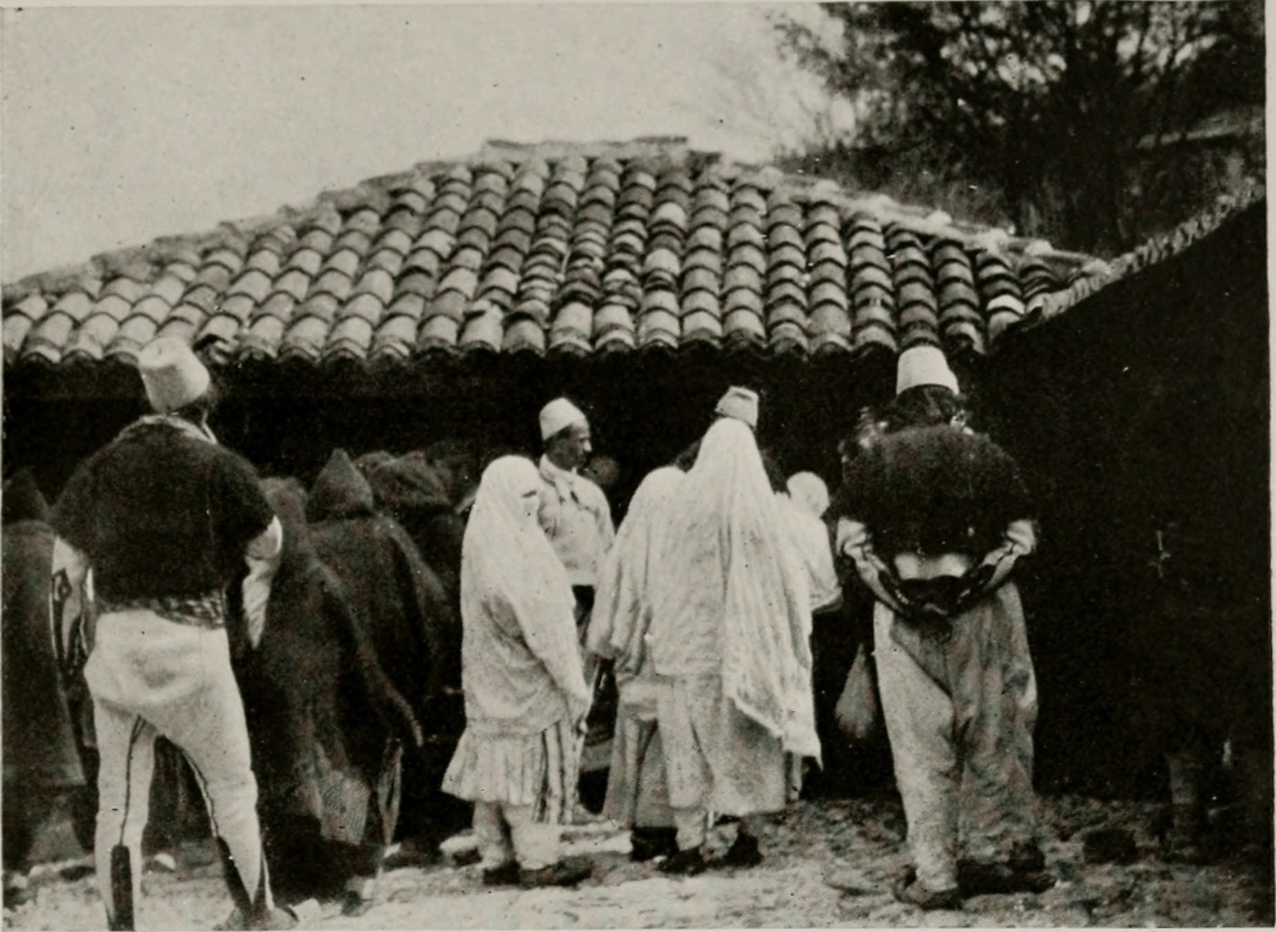 Title: Bird-hunting through wild Europe Year: 1908 (1900s) Authors: Lodge, R. B Subjects: Birds -- Europe; Photography of birds Publisher: London (England) : Robert Culley Text Appearing Before Image: ' Text Appearing After Image: IN THE FISH-MARKET